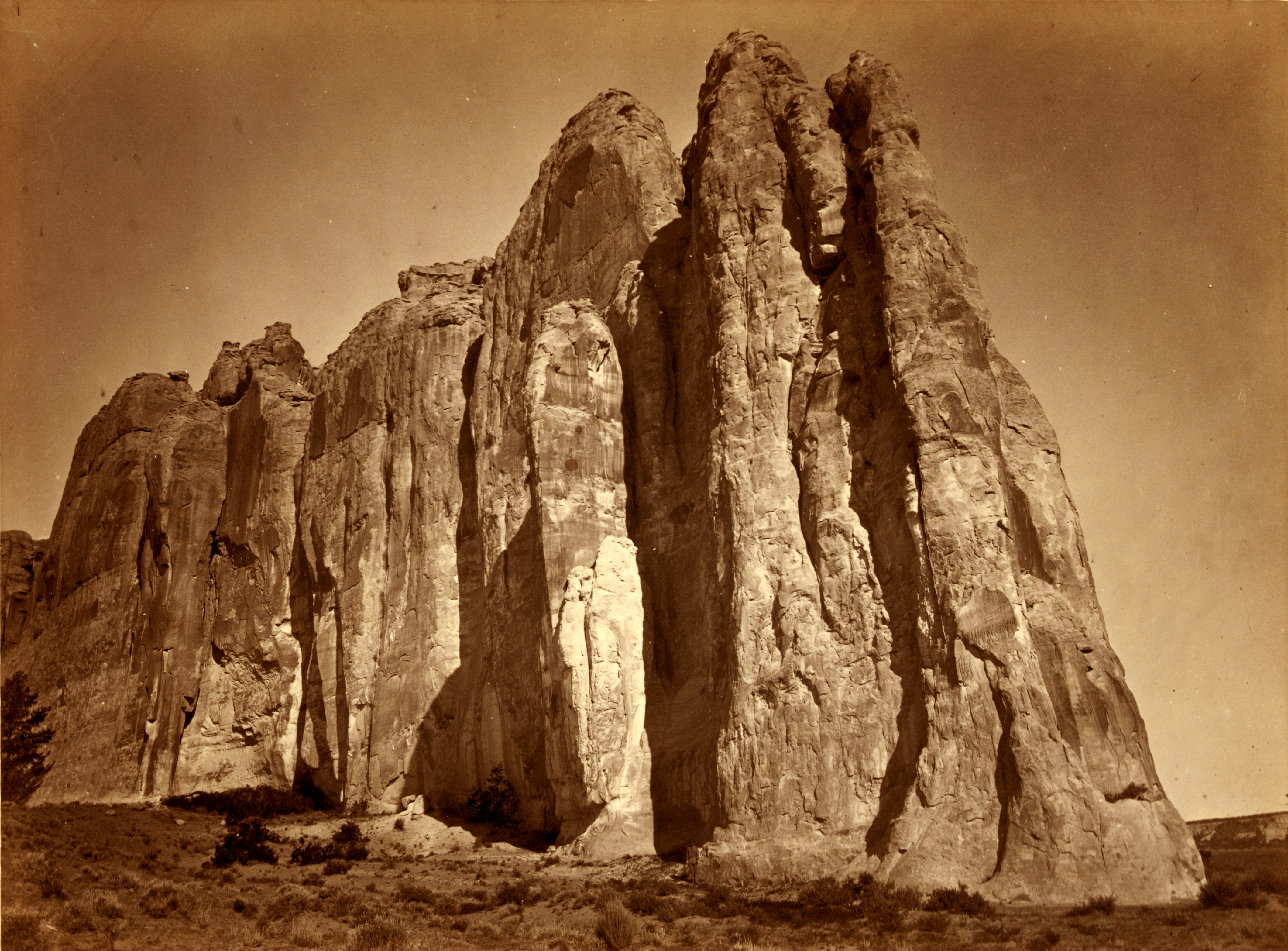 South side of Inscription Rock, New Mexico. Part of the series "Geographical explorations and surveys west of the 100th meridian", sponsored by the United States War Department, U.S. Army Corps of Engineers.